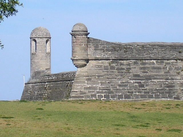 The garrita and belltower of the Castillo de San Marcos in San Augustine, Florida.